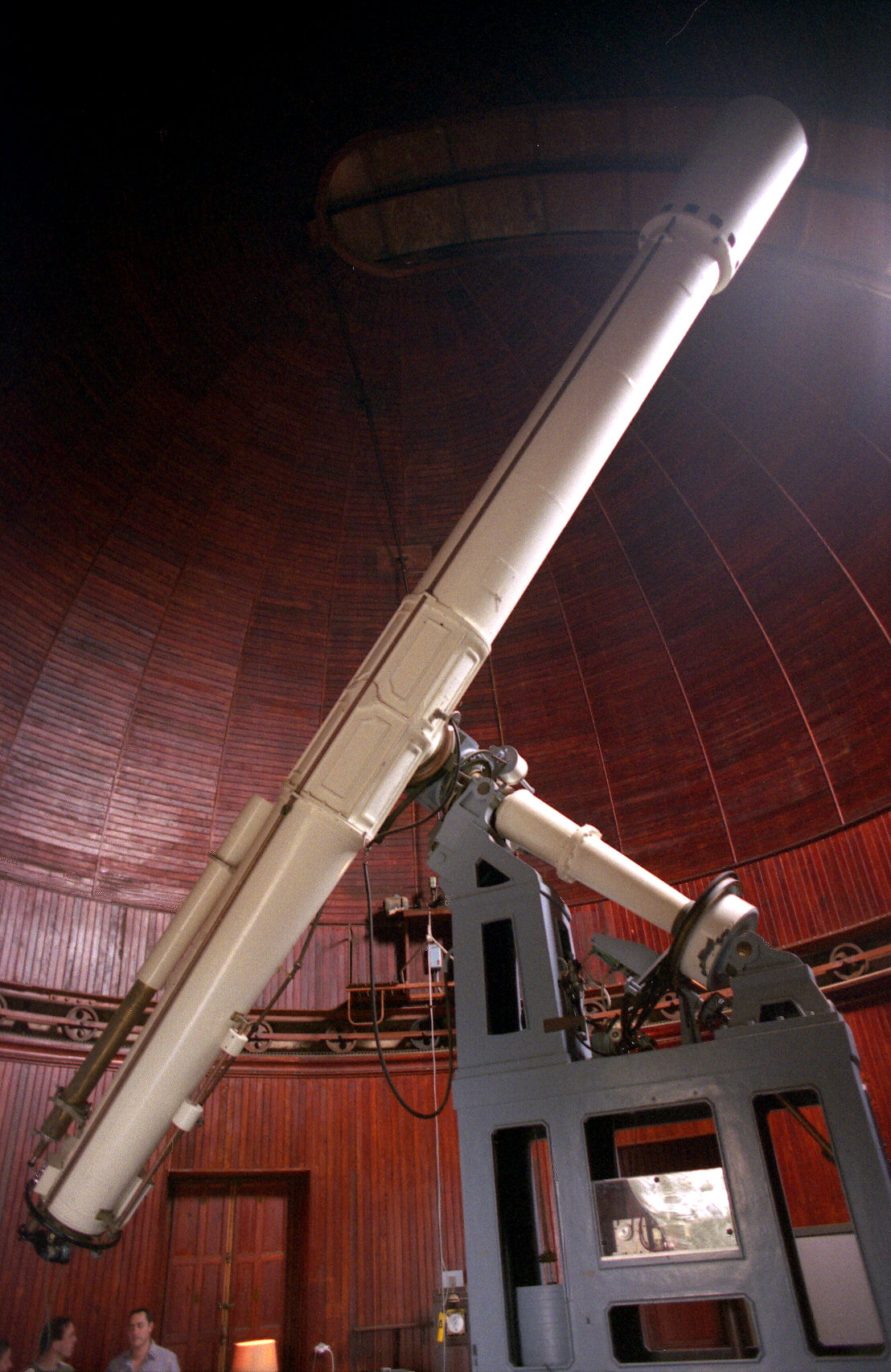 Nice Observatory - 50cm Refractor